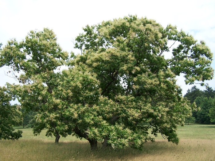 Chestnut Tree, Castanea dentata. Once a stately, abundant tree, the chestnut has been virtually wiped out by a fungus